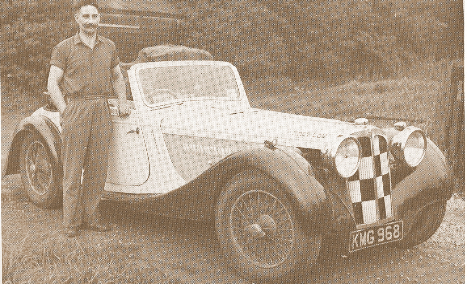 1939 Atalanta V-12 Drop Head Coupe by Abbott of Farnham